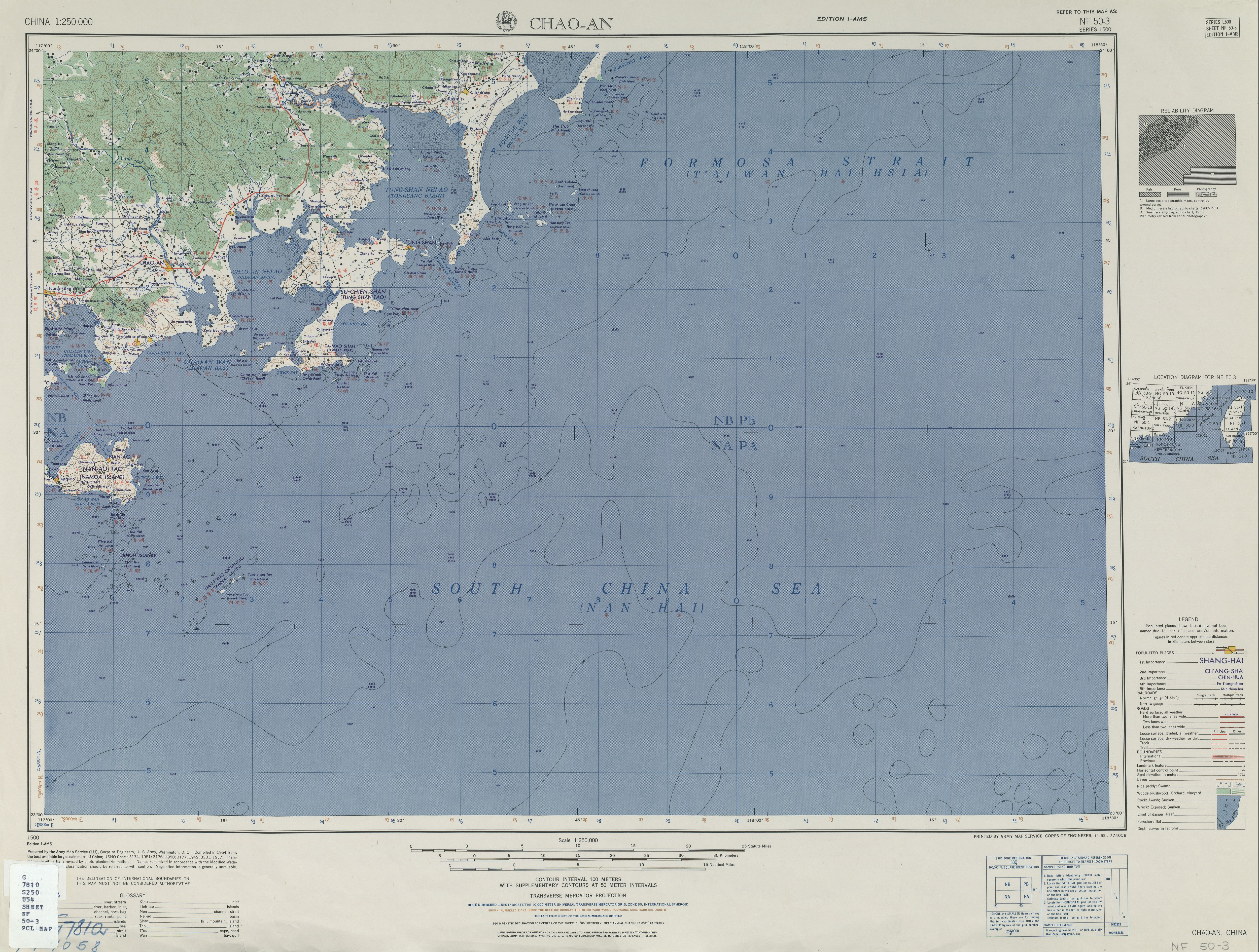 Map of Zhao'an (Chao-an) area, Fujian